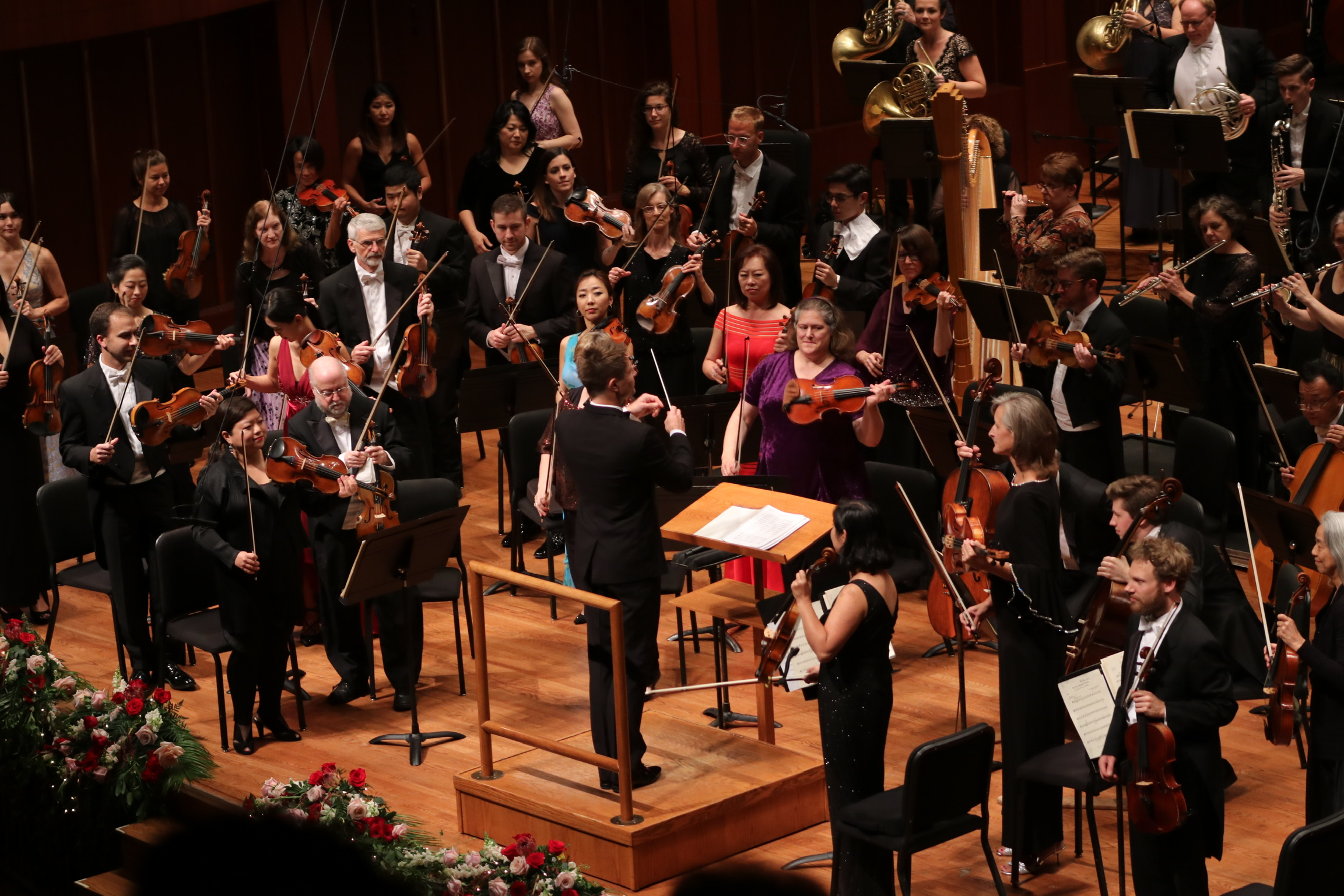 This photo depicts the Indianapolis Symphony Orchestra, 2019-20 Opening Night Gala in September 2019.